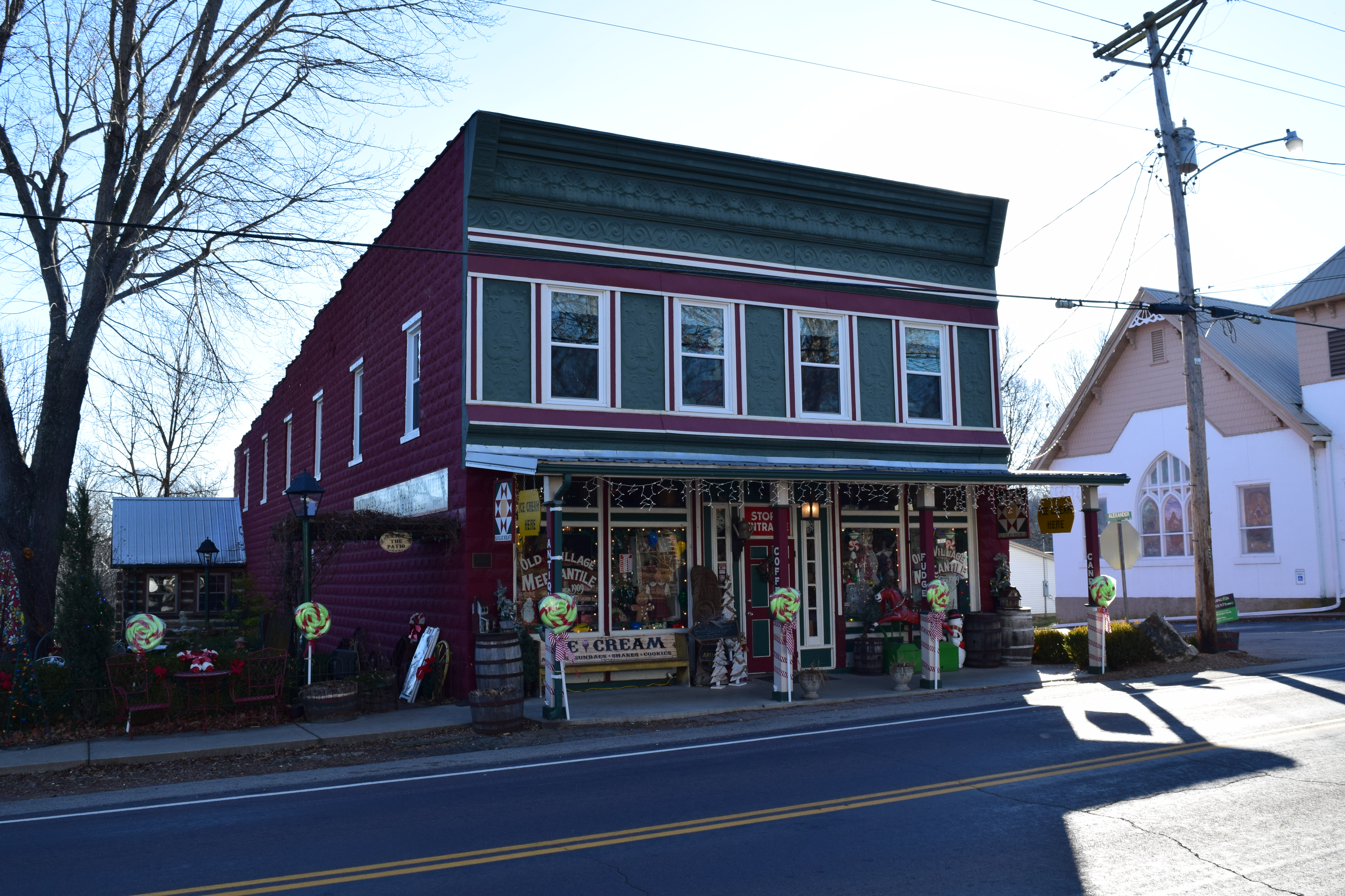 The McSpaden Golden Rule Store, located along Missouri Route 21 in the Caledonia Historic District in Caledonia, Missouri. The district is listed on the National Register of Historic Places.